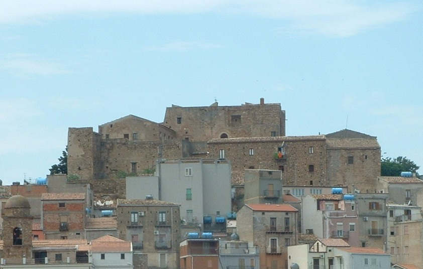 View of castle in Caronia (ME), in Sicily, in Italy.